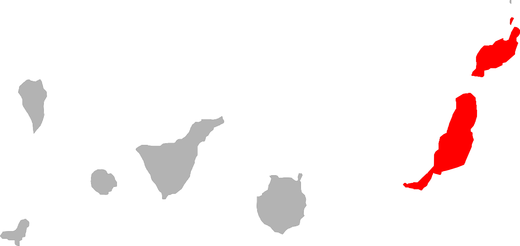 Tarentola angustimentalis distribution map.